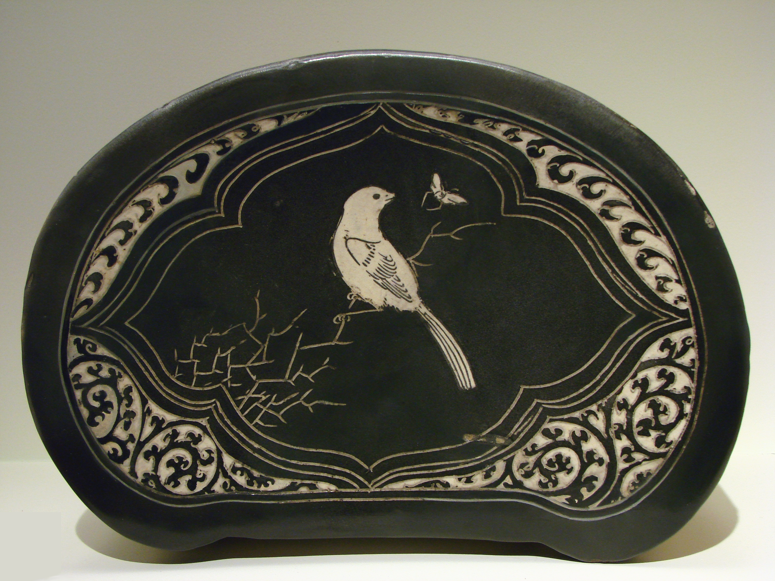 Pillow, incised decoration. White slip and dark brown. North Song Dynasty 12th century. Musée Guimet, Paris.